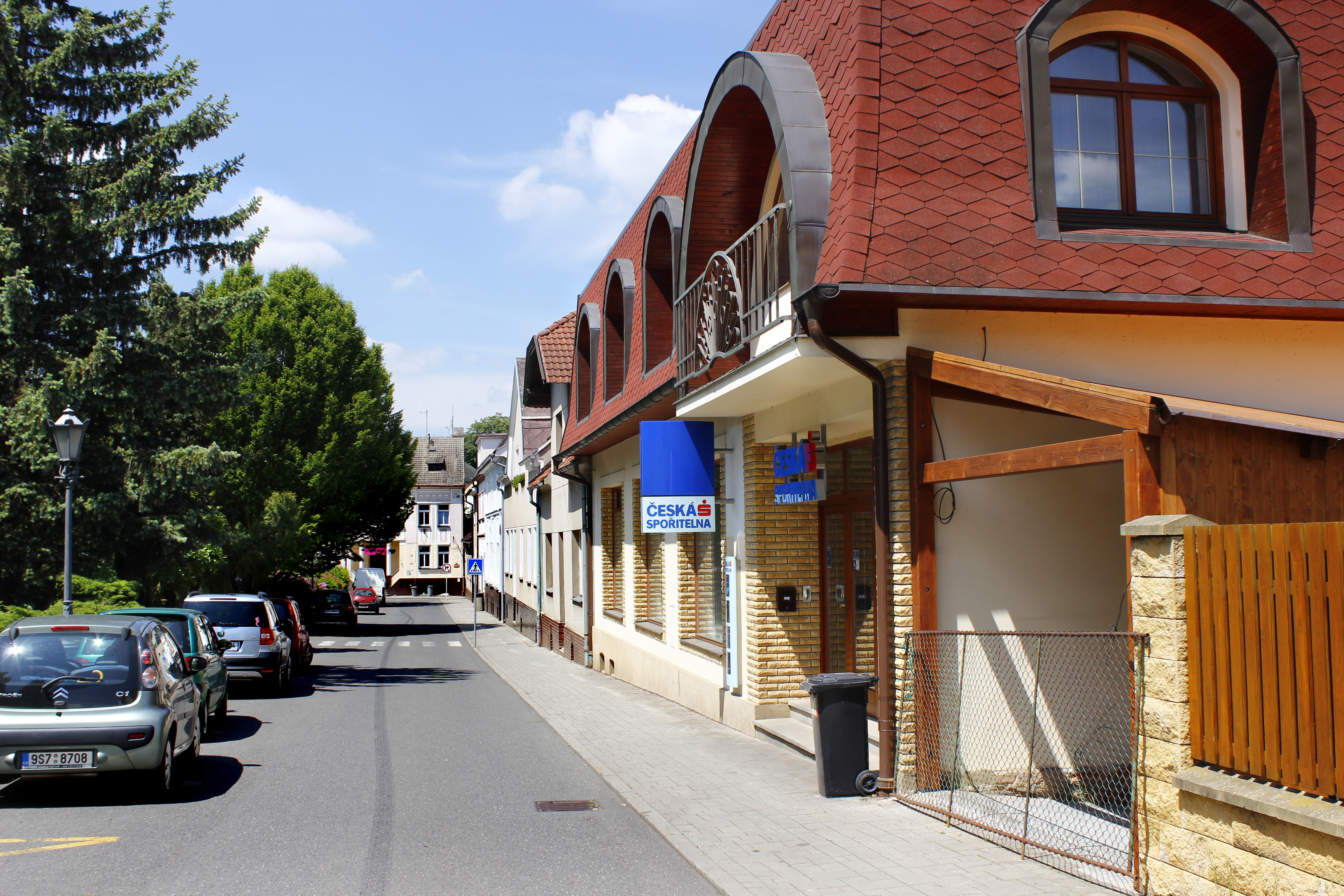 Náměstí Míru (square) in Komárov, Czech Republic